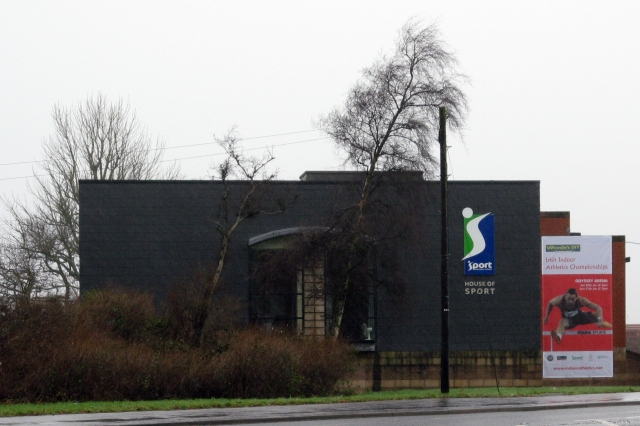 House of Sport The House of Sport is the headquarters of the Sports Council for Northern Ireland. It's situated on a roundabout on the A55 Belfast ring road so also features regularly in reports of traffic delays.